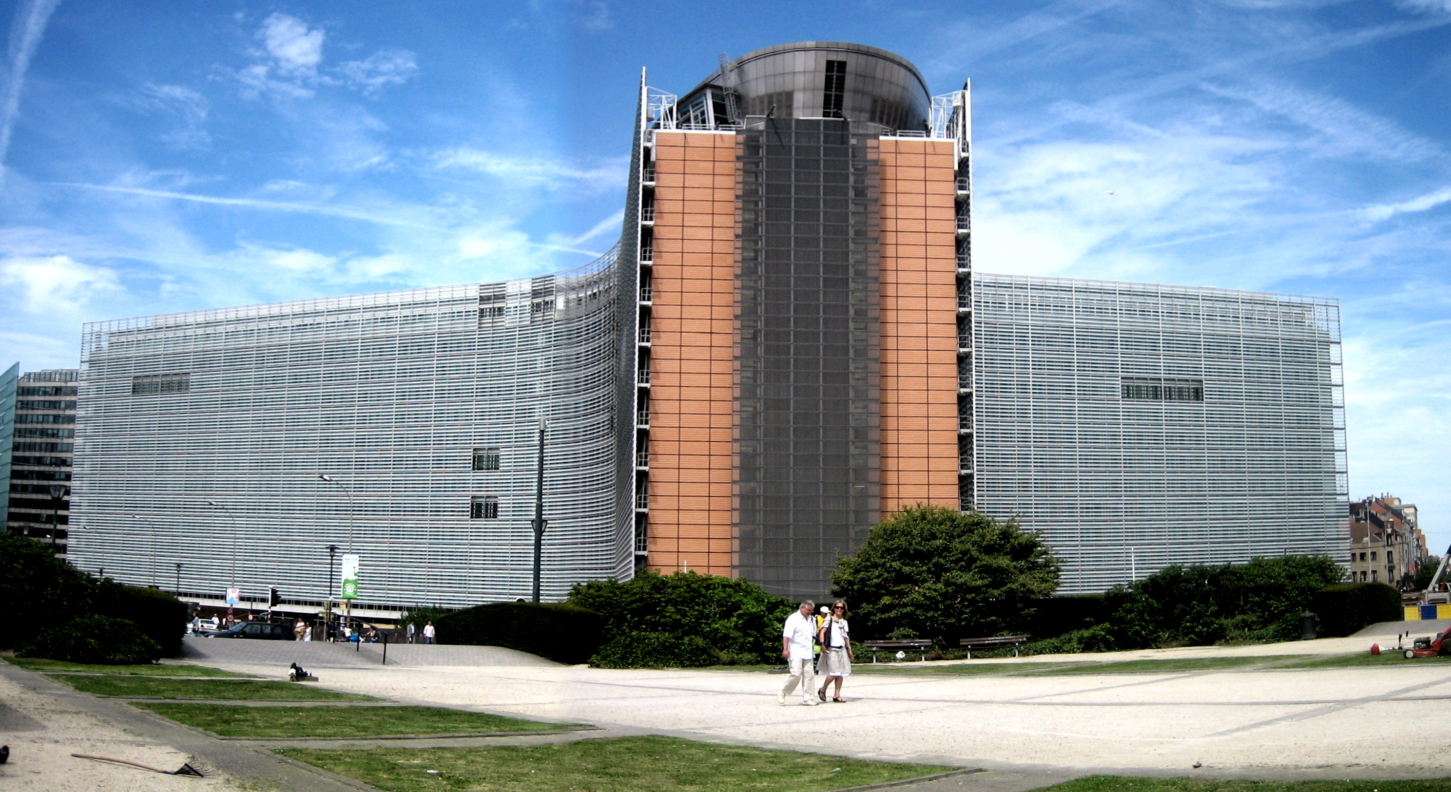 Corrected (rotation and minor crop) of File:Berlaymont wide from Schuman Roundabout 7-9.jpg (my own file): The Berlaymont building of the European Commission. Seen from Schuman Roundabout. (east facing west)